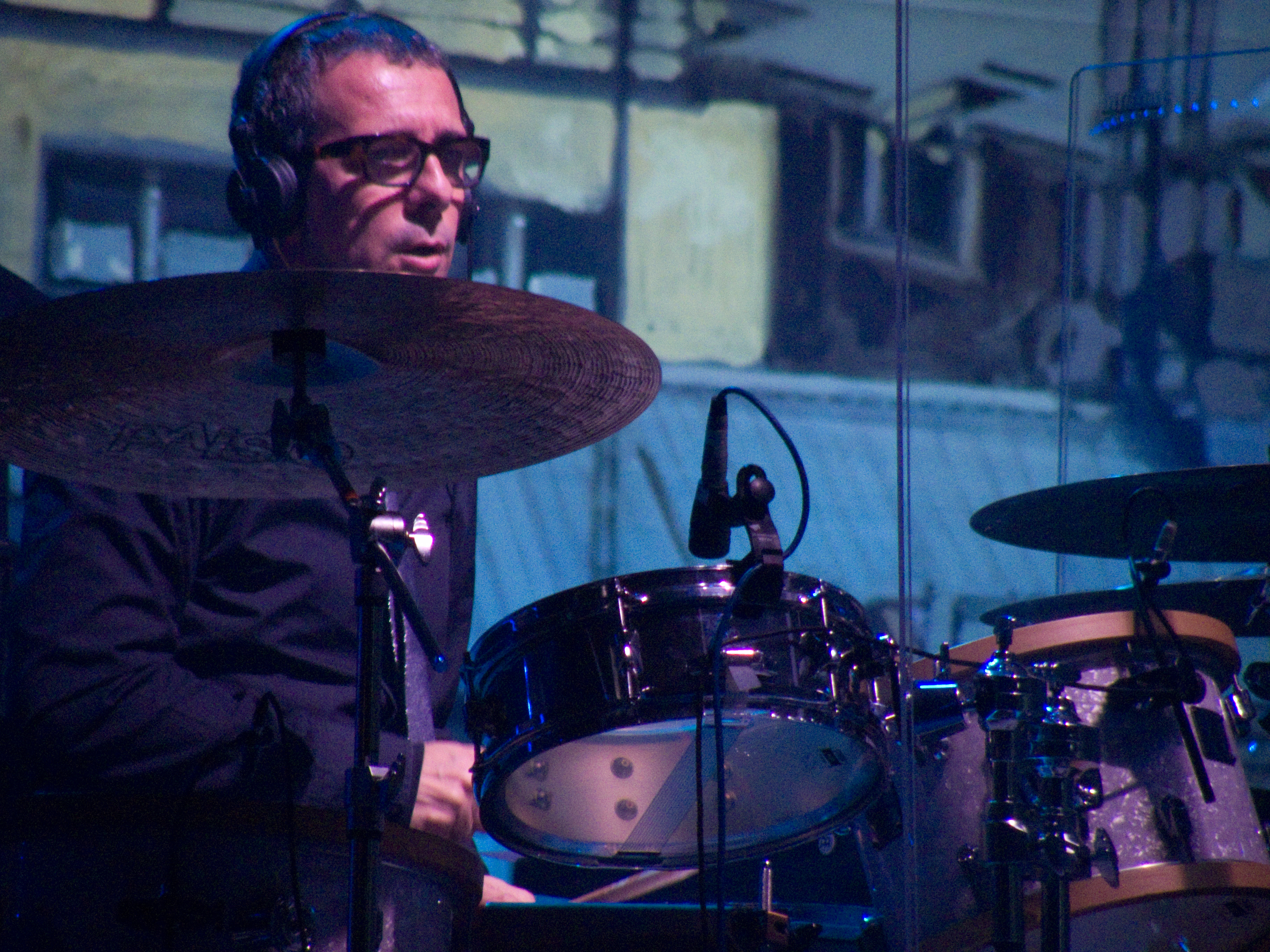 Pedro Barceló during a concert of the "Vinagre y rosas" Tour in Madrid (Spain)